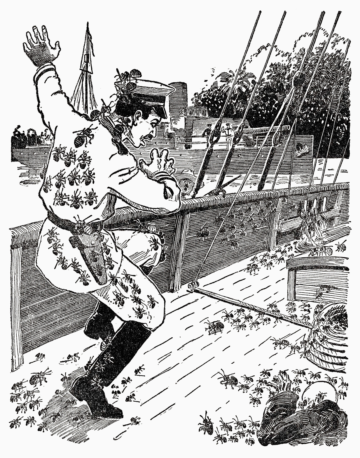 Opening illustrations by an unknown author from H.G. Wells' short story "The Empire of the Ants", published in the pulp magazine Amazing Stories; August 1926.